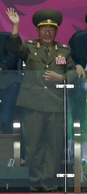 Incheon Asian Games 2014 Closing Ceremony October 4, 2014 Incheon Asiad Main Stadium, Incheon-si Ministry of Culture, Sports and Tourism Korean Culture and Information Service ( Official Photographer : Jeon Han This official Republic of Korea photograph is CC-BY-SA-2.0-licensed, so while restrictions such as personality or privacy rights may apply, in general, manipulations are allowed. If you require a photograph without a watermark, please use Flickr e-mail.